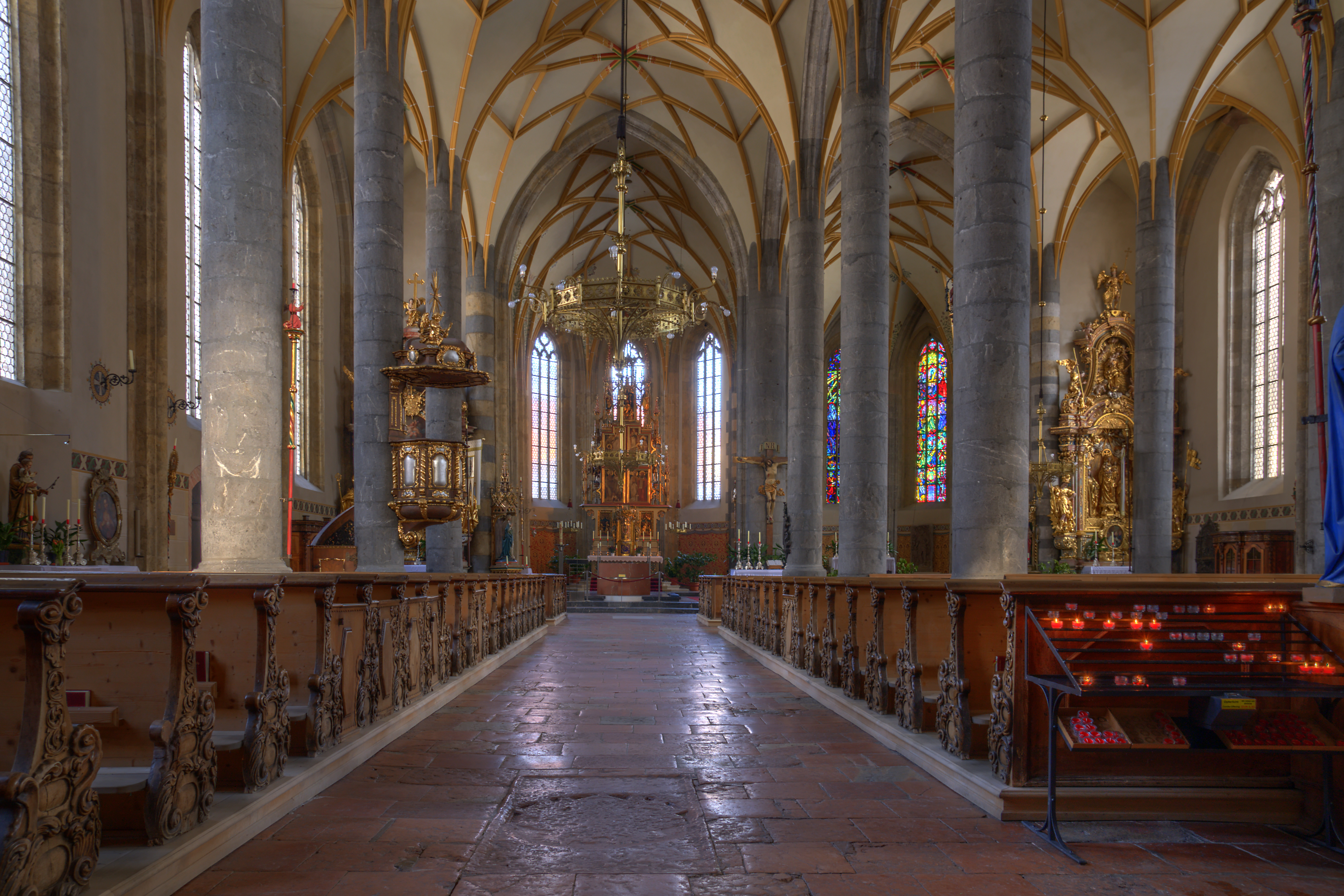 The left main nave of the church Maria Himmelfahrt in Schwaz, Tyrol, Austria 8 XR Di II LD